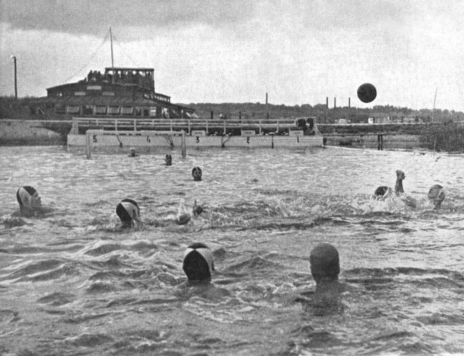 Water polo match during Lithuanian National Olympics. American Lithuanians versus KJK Kaunas. Kaunas open water pool, 1938. Picture from "Fiziškas auklėjimas", 1938, No.7.